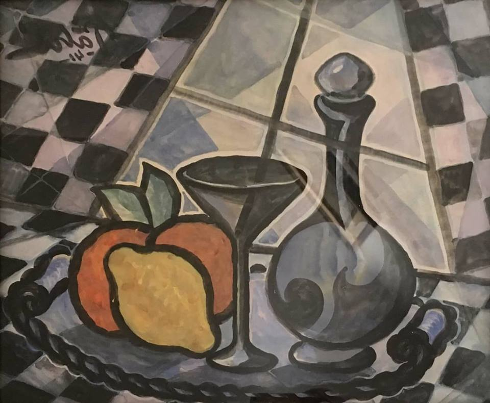 Gouache41